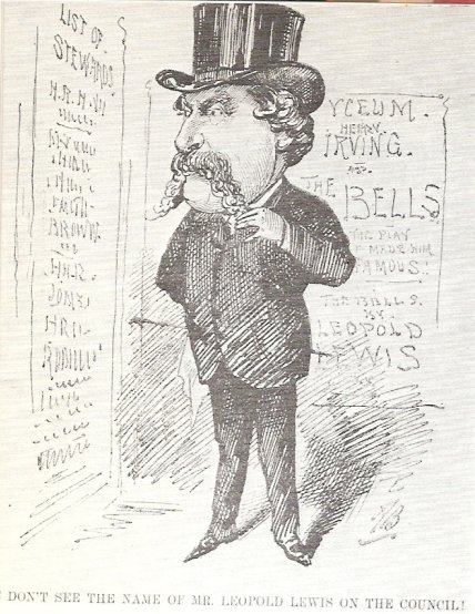 Caricature of Leopold David Lewis by Alfred Bryan - The Entr'acte 30 June 1883